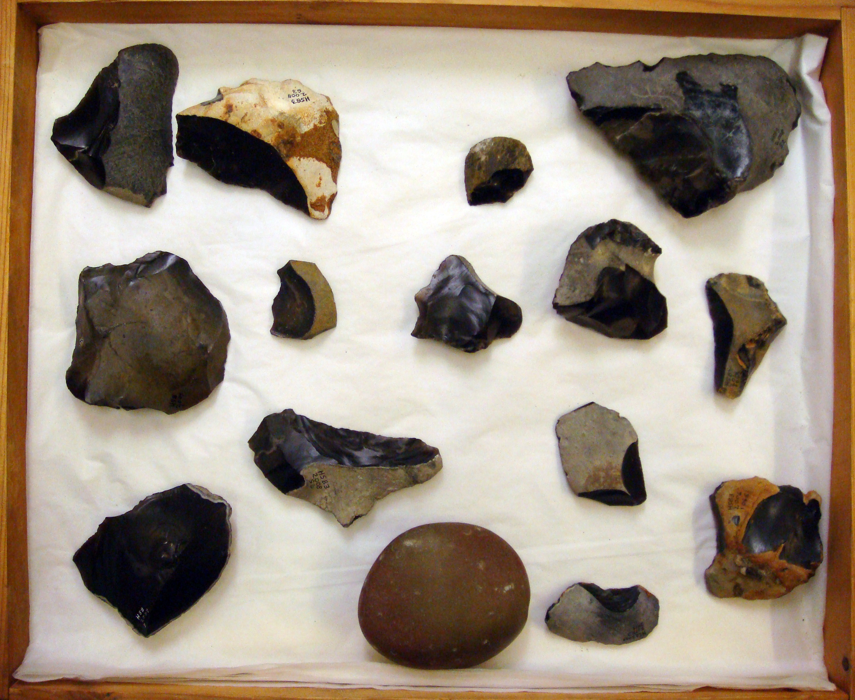 Photo taken at Franks House during the Wikimedia behind the scenes workshop.